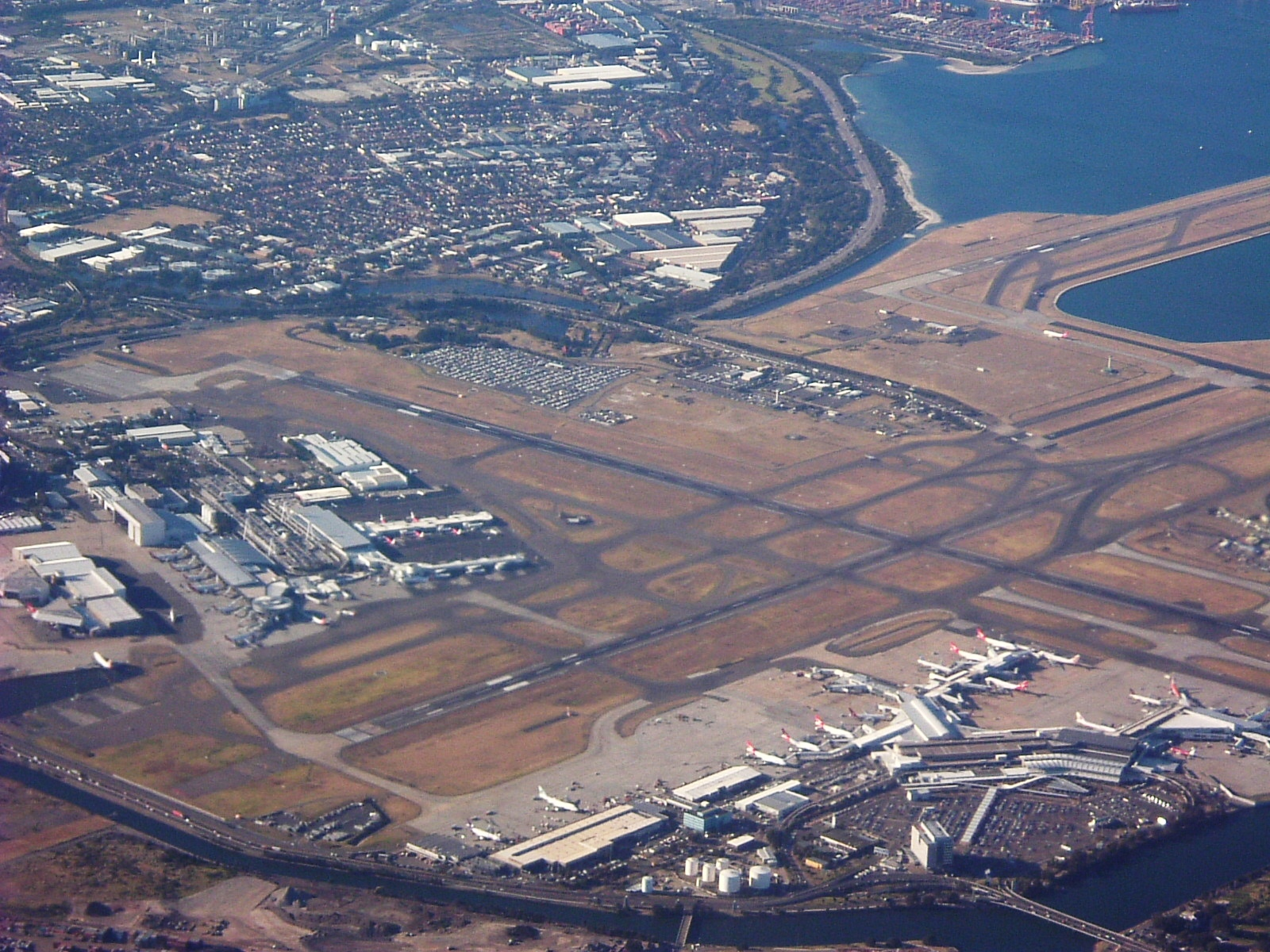 Sydney Airport from the air (with about half of its length out of the picture). The "third runway" is at upper right (also extending out of the picture into Botany Bay). T1 (the International Terminal) is at lower right, with the Freight Terminal to its left (bottom centre). The buildings on the left are (from left), the Qantas Jet Base (maintenance), T3 (Qantas domestic), and T2 (with 2 piers: Virgin and regional domestic flights). Source: taken by Mathieumcguire.